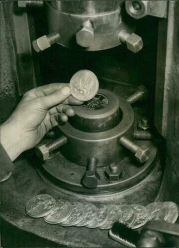 Olympic Games Medals - Vintage Photograph